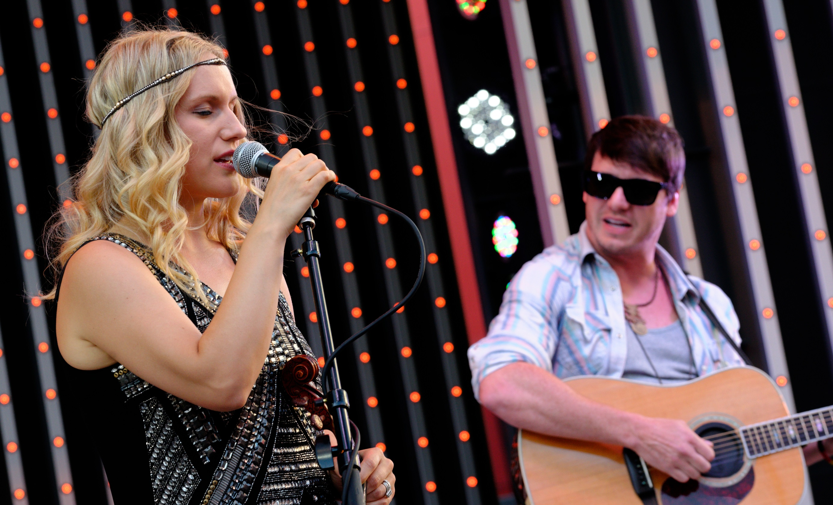 American Young (Jon Stone and Kristy Osmunson) performing live at 5 Towers on Universal CityWalk, in Universal City California on Thursday July 24th, 2014.